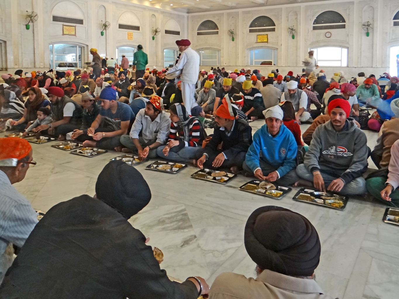 Sikhism in India Community free meal at Gurdwara Bangla Sahib dedicated to Guru Har Krishan